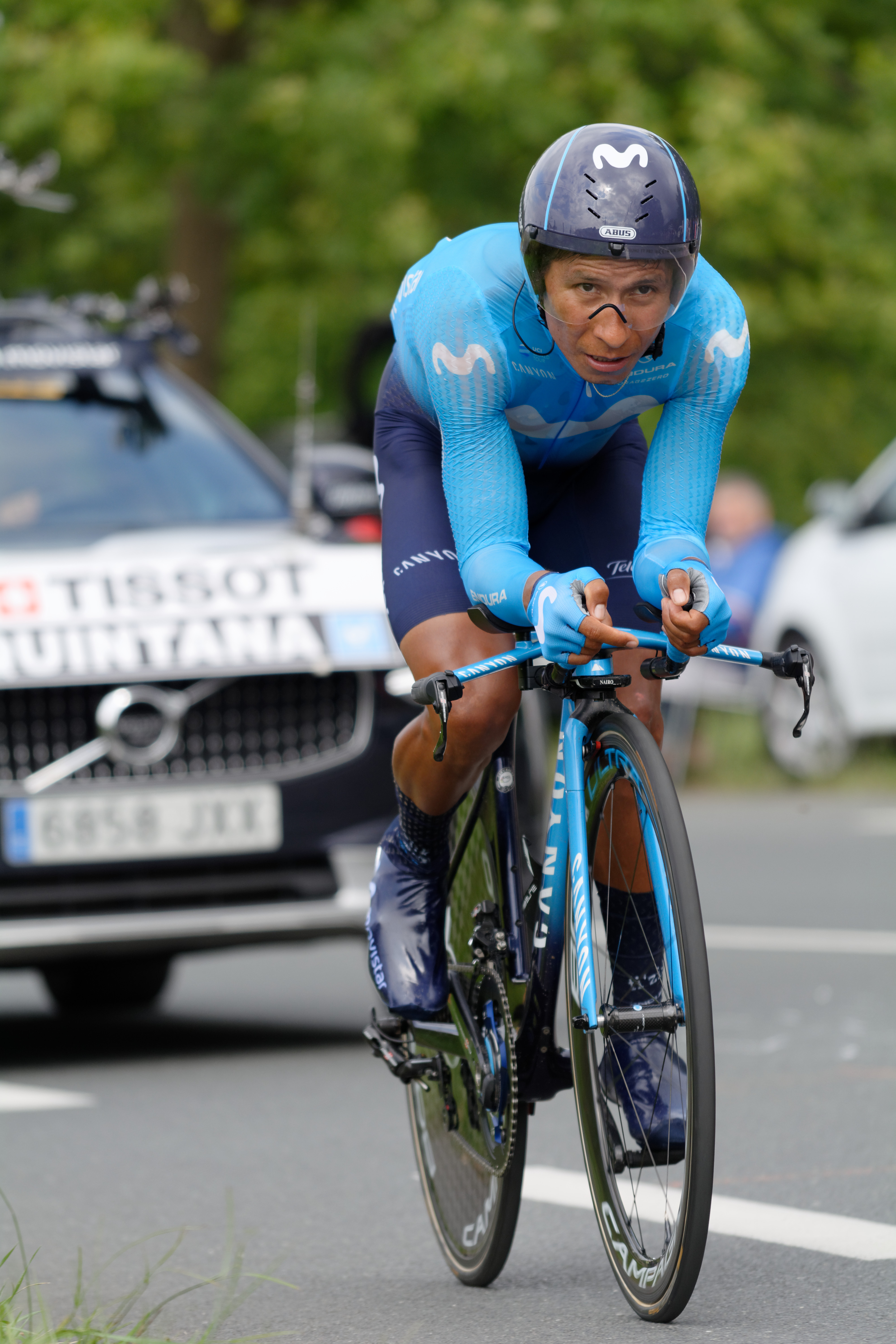 2018 Tour de France